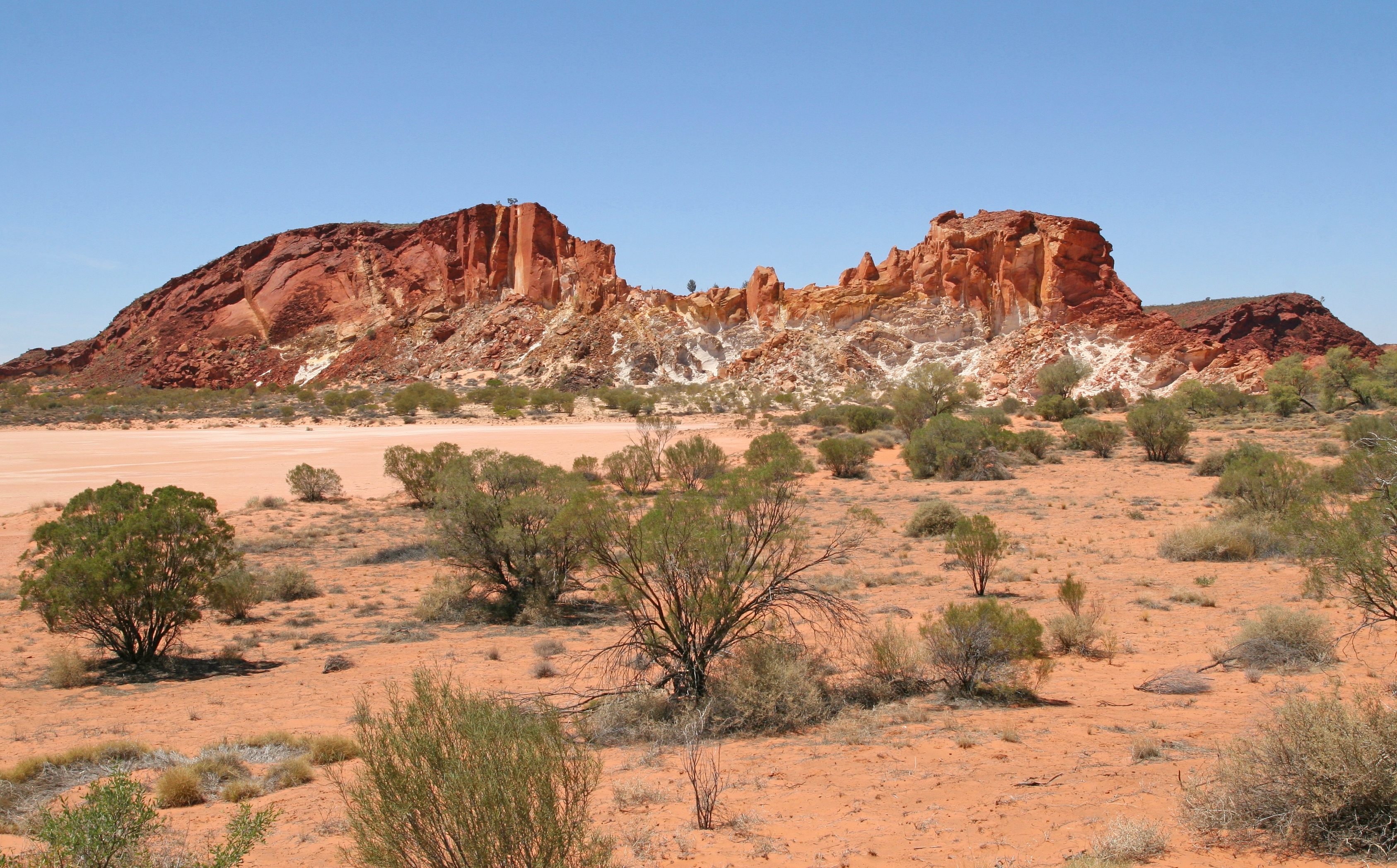 Sandstone bluffs at Rainbow Valley.